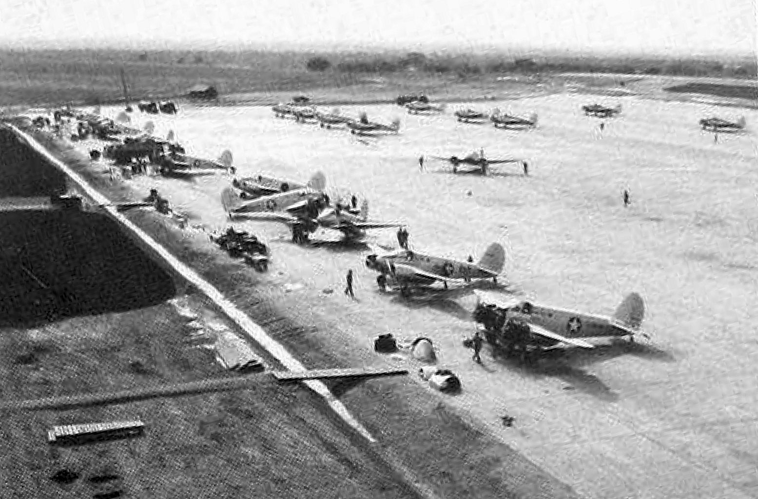 Blackland Army Airfield Aircraft Parking Ramp